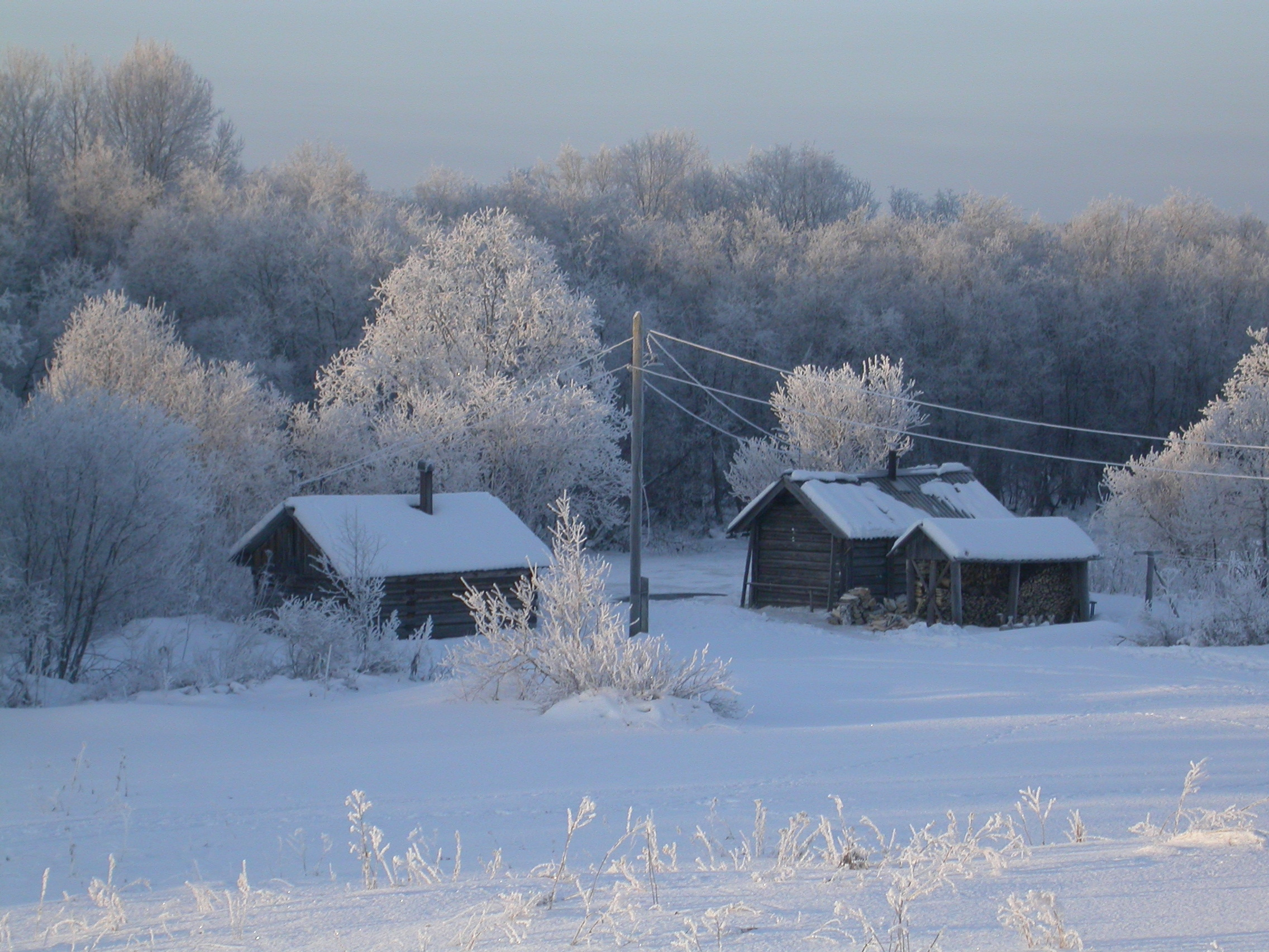 Kargopol (Russia), bath-house